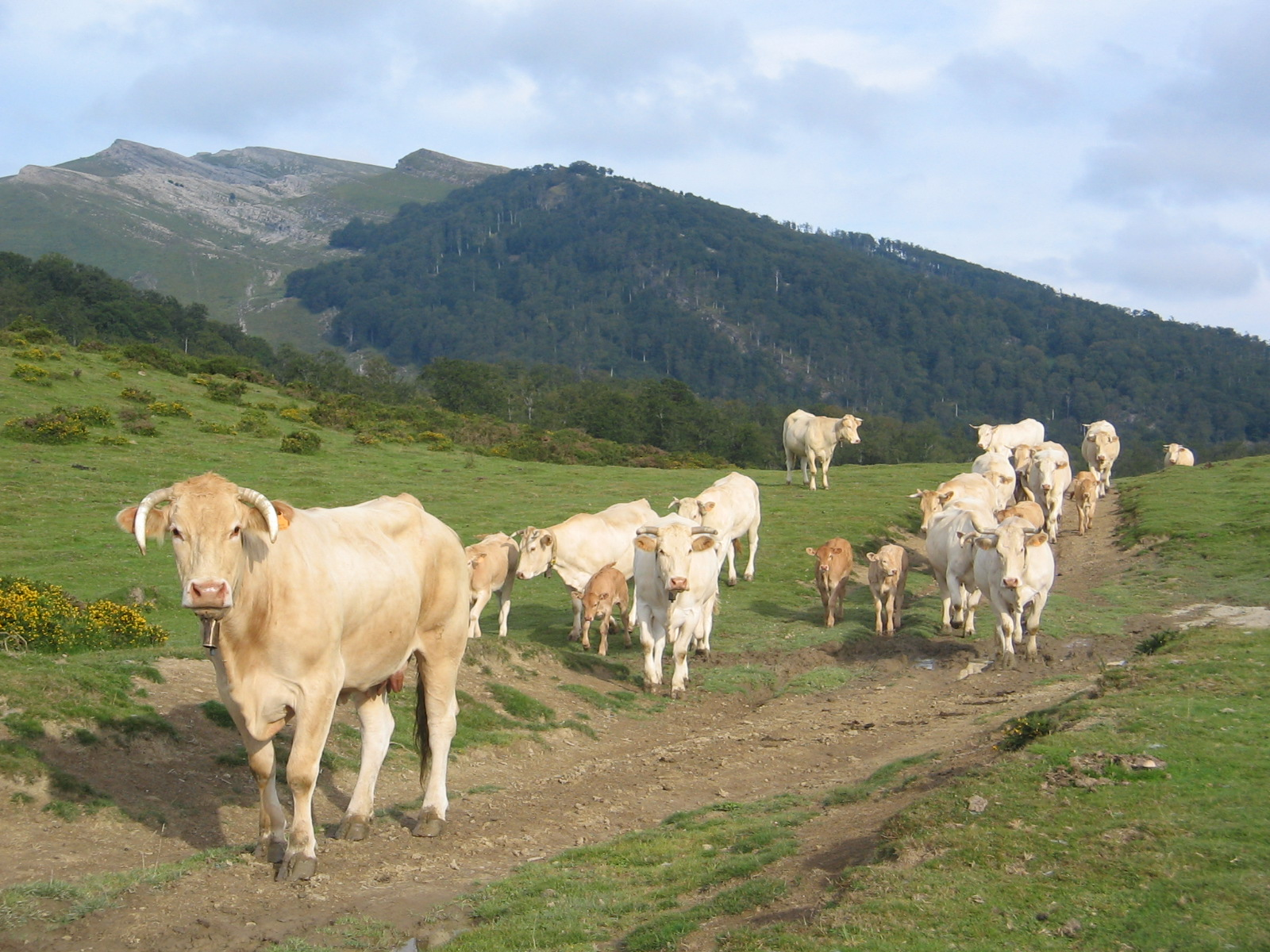 Cow herd E of the Organbidexka Pass in the Basque Country's Pyrenees